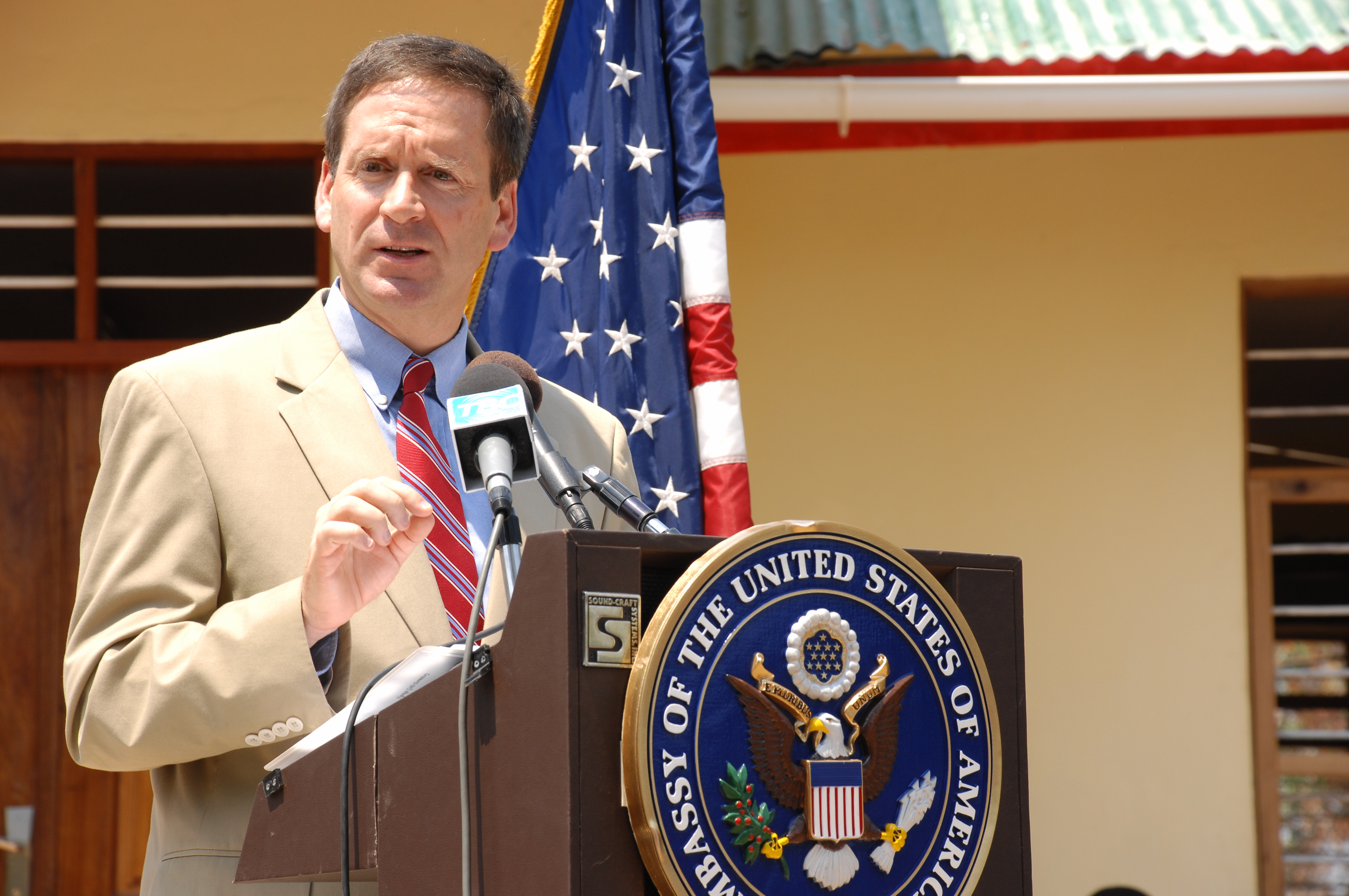 United States Ambassador Mark Green addresses the crowd at the official dedication ceremony of the new girls dormitory in the village of Ngongo of the Lindi District in Tanzania, Africa, Sept. 13, 2008. Combined Joint Task Force - Horn of Africa and the U.S. Agency for International Development work together to improve international relations in Tanzania.